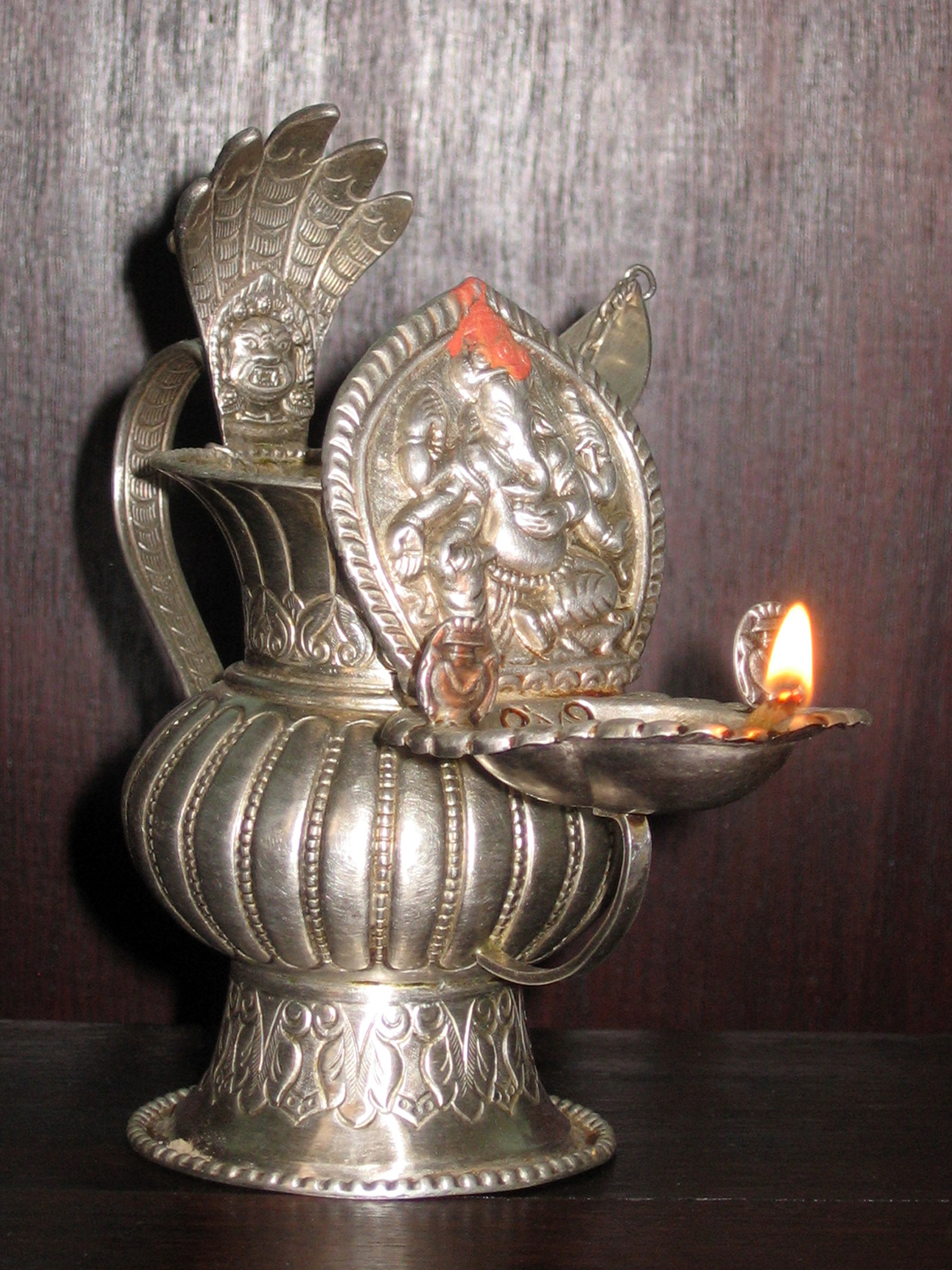 Silver ceremonial lamp known as Sukunda used during religious rituals by the Newars of the Kathmandu Valley.